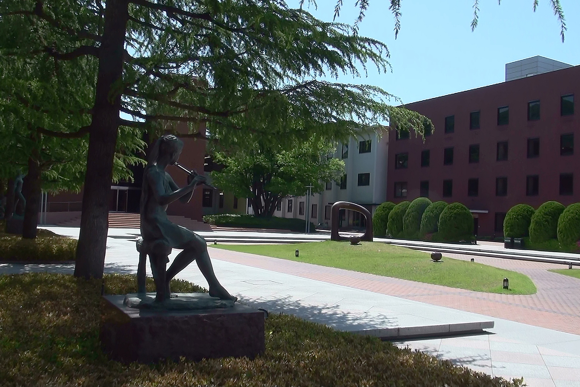 Yamanashi Gakuin University Campus №2